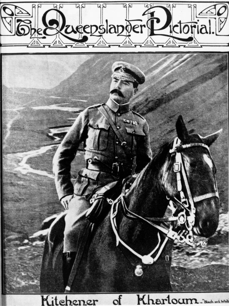 Lord Herbert Kichener on horseback.. Lord Herbert Kitchener, commander in chief during the South African War. Photograph entitled Kitchener of Khartoum. A large contingent of Queensland military went to the Boer War.